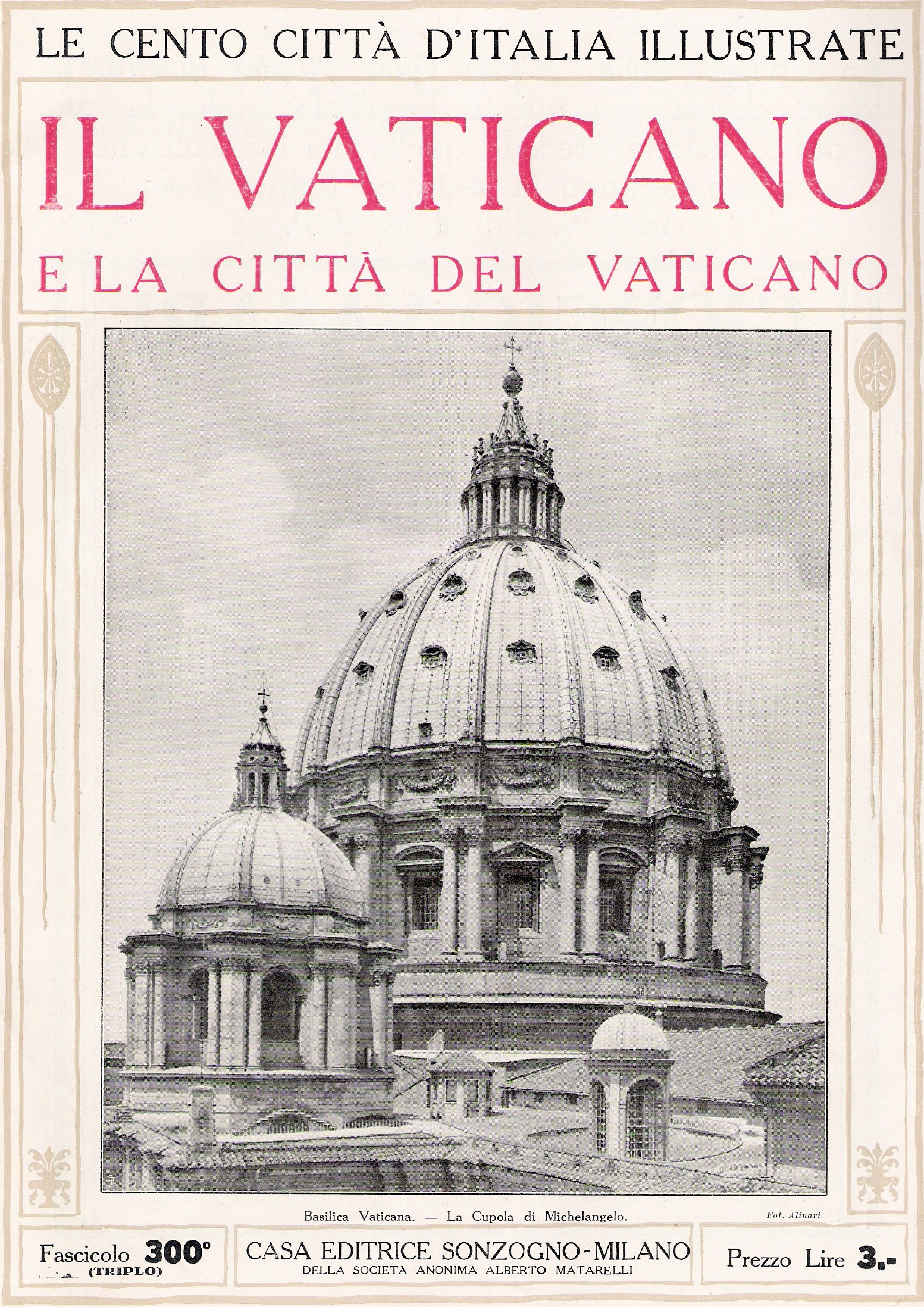 scanner of old magazine 1929